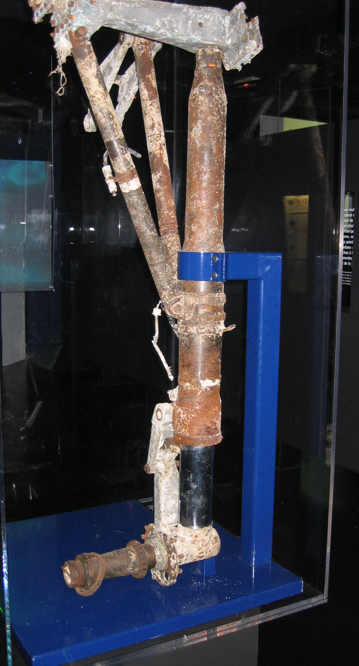 Antoine de Saint-Exupéry exhibit at the national Air and Space Museum in Le Bourget, Paris. Depicted is part of the nose landing gear remnants of the P-38 Lightning spyplane he was flying when he disappeared over the Mediterranean Sea. Remnants of his specially modified aircraft, an F-5B variant, were recovered in 2003 and 2004 after years of search. The first indication that his plane was in the area came in 1998 when a French fishing crew dredged up Saint-Exupéry's silver identification bracelet in their nets. He was flying an unarmed reconnaissance mission at the time of his disappearance. His aircraft was found far from its intended flight path, however no cause for his aircraft's crash or his death has ever been determined, although French authorities suggested that his oxygen system may have failed. He was also in poor general health at the time, having suffered numerous previous aircraft crashes.